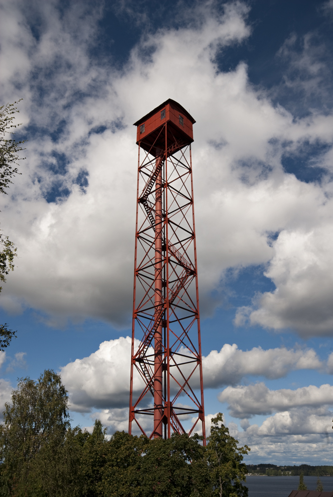 Pispala shot tower viewed from Pispala Ridge